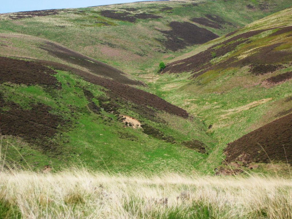 Lammermuir Hills, East Lothian